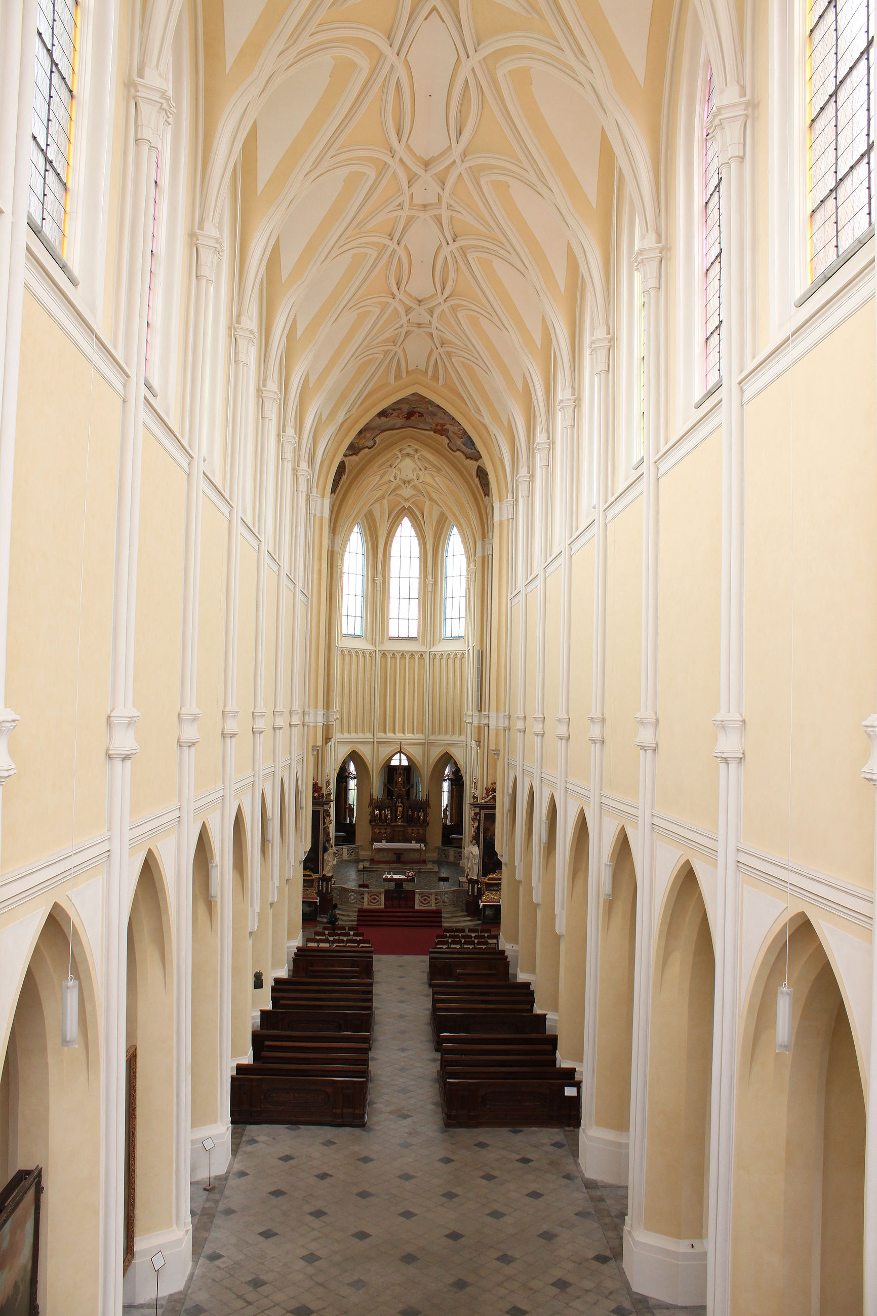 Nave view from the choir in Our Lady's Cathedral in Kutná Hora, CZ